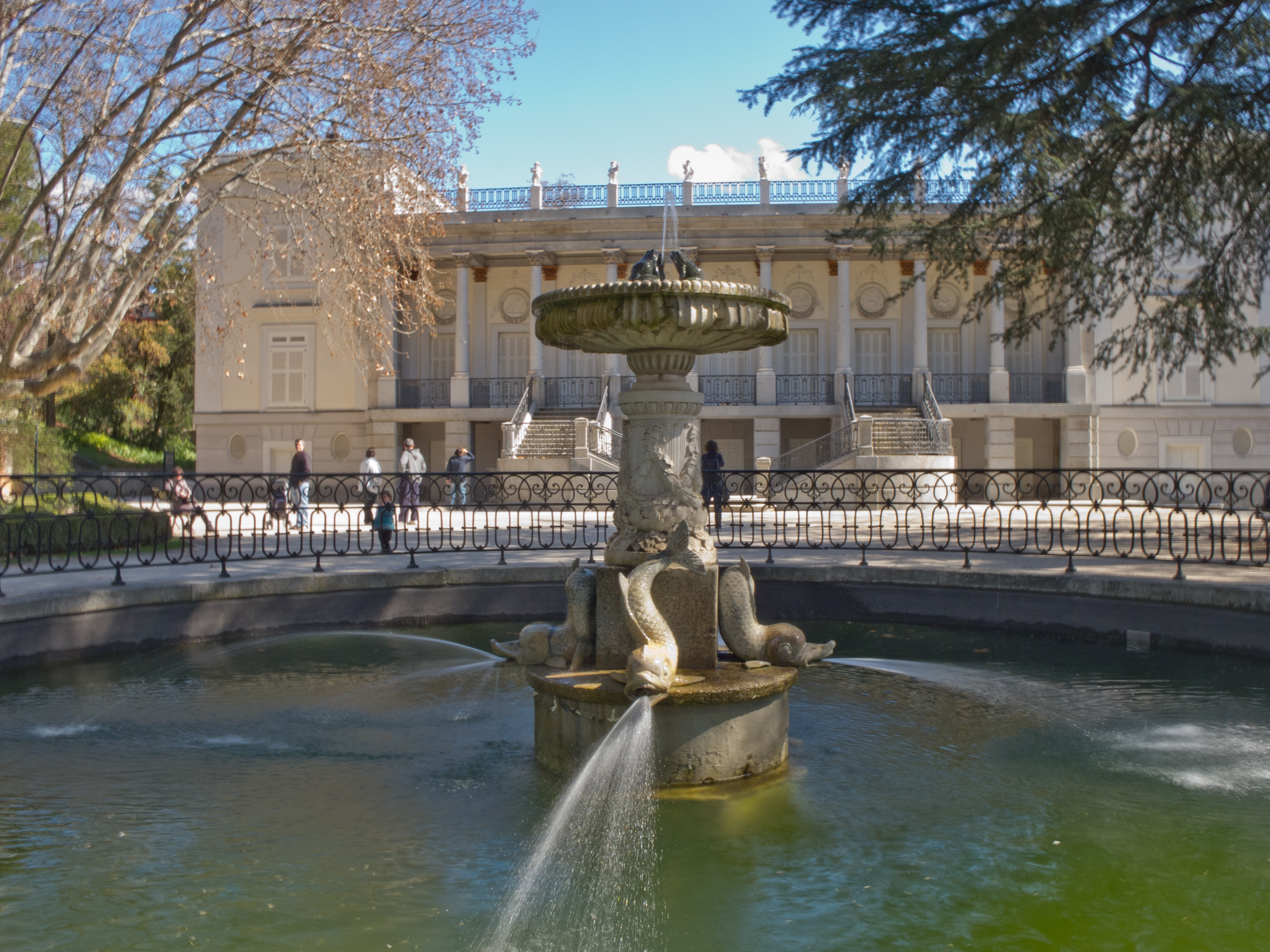 Park of El Capricho, Madrid, Spain.